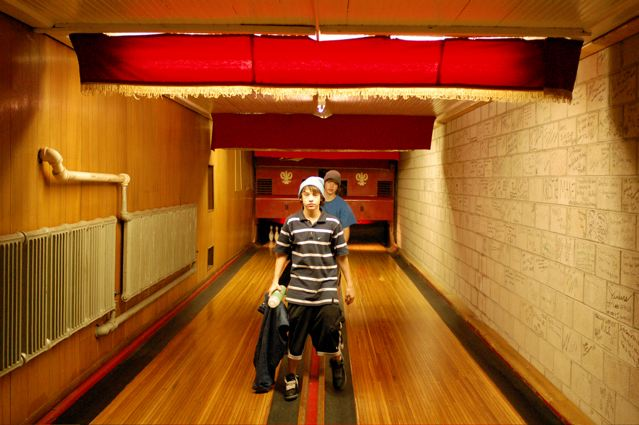 These pinboys set pins at the Holler House in Milwaukee, Wisconsin.